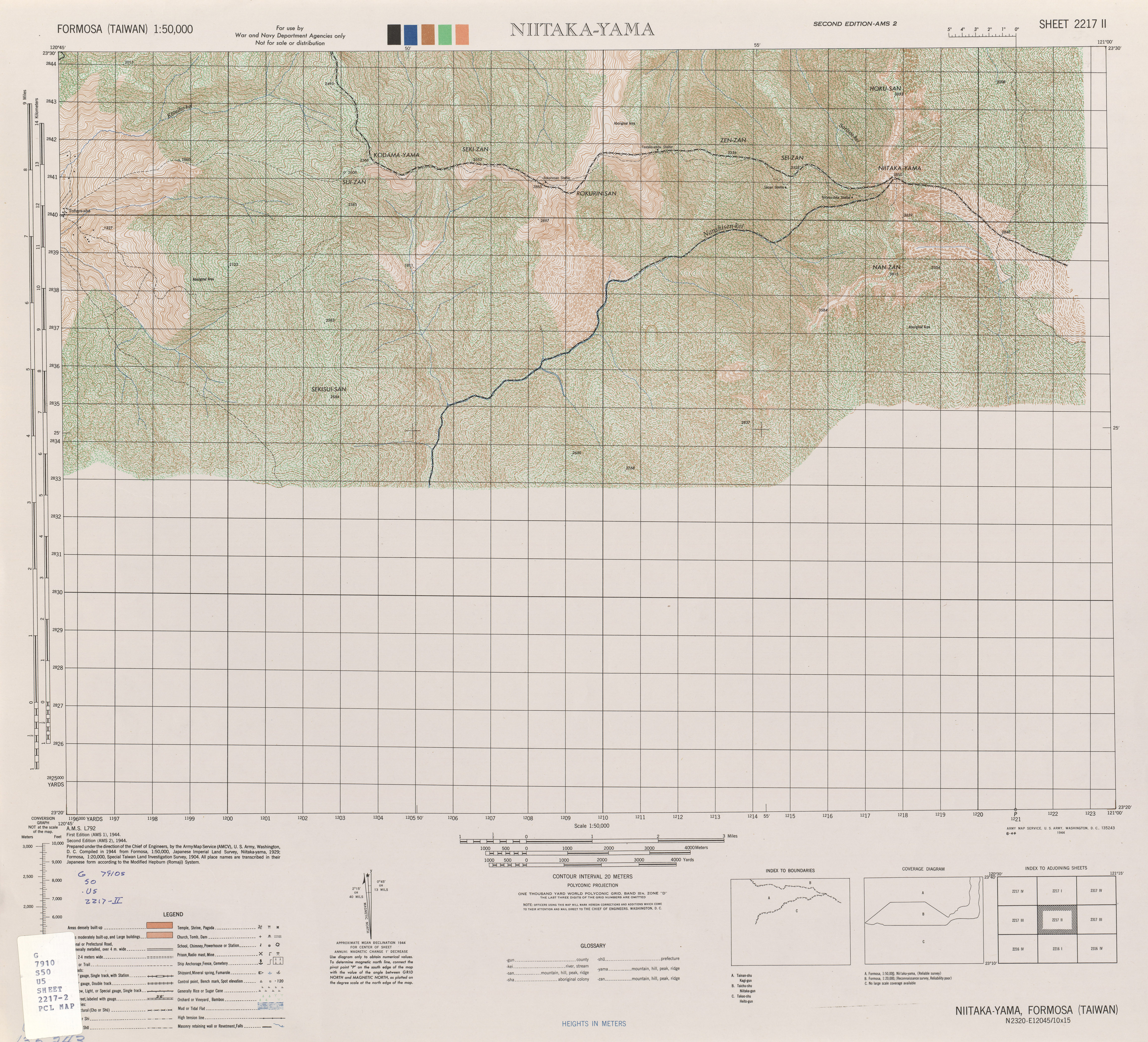 Map from Formosa (Taiwan) 1:50,000 AMS Series L792